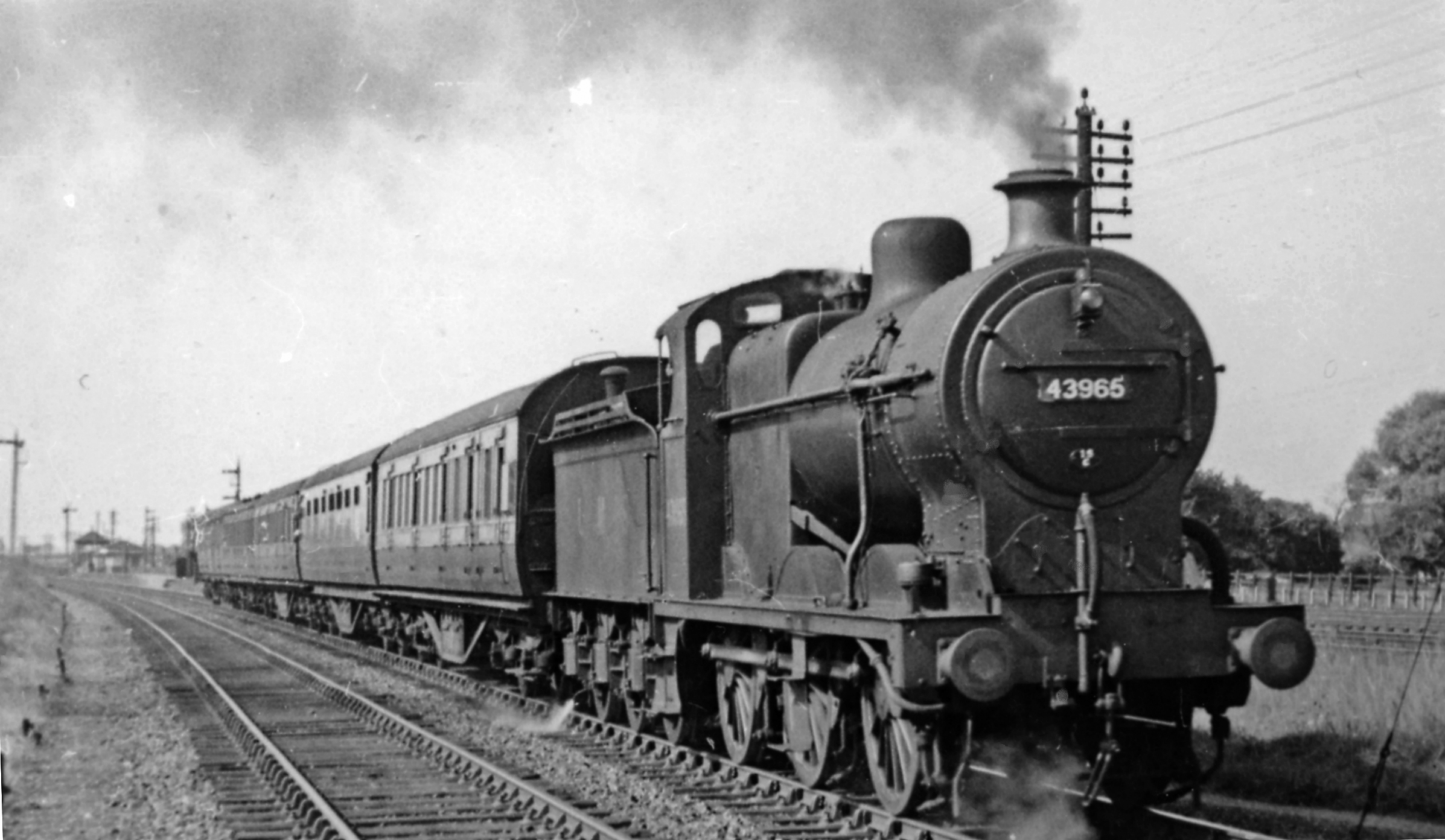 Leicester - Peterborough East train leaving Walton. View NW, towards Stamford, Manton and Leicester/Nottingham: ex-Midland Melton Mowbray - Peterborough line, which parallels on the west side the ER ECML into Peterborugh for about five miles - making a splendid stretch for train-watching. The 12.42 stopping train from Leicester London Road is headed by ex-Midland Fowler 4F 0-6-0 No. 43965 (withdrawn 12/59). Walton station, visible in the distance, served the Midland line only and was closed on 7/12/53.